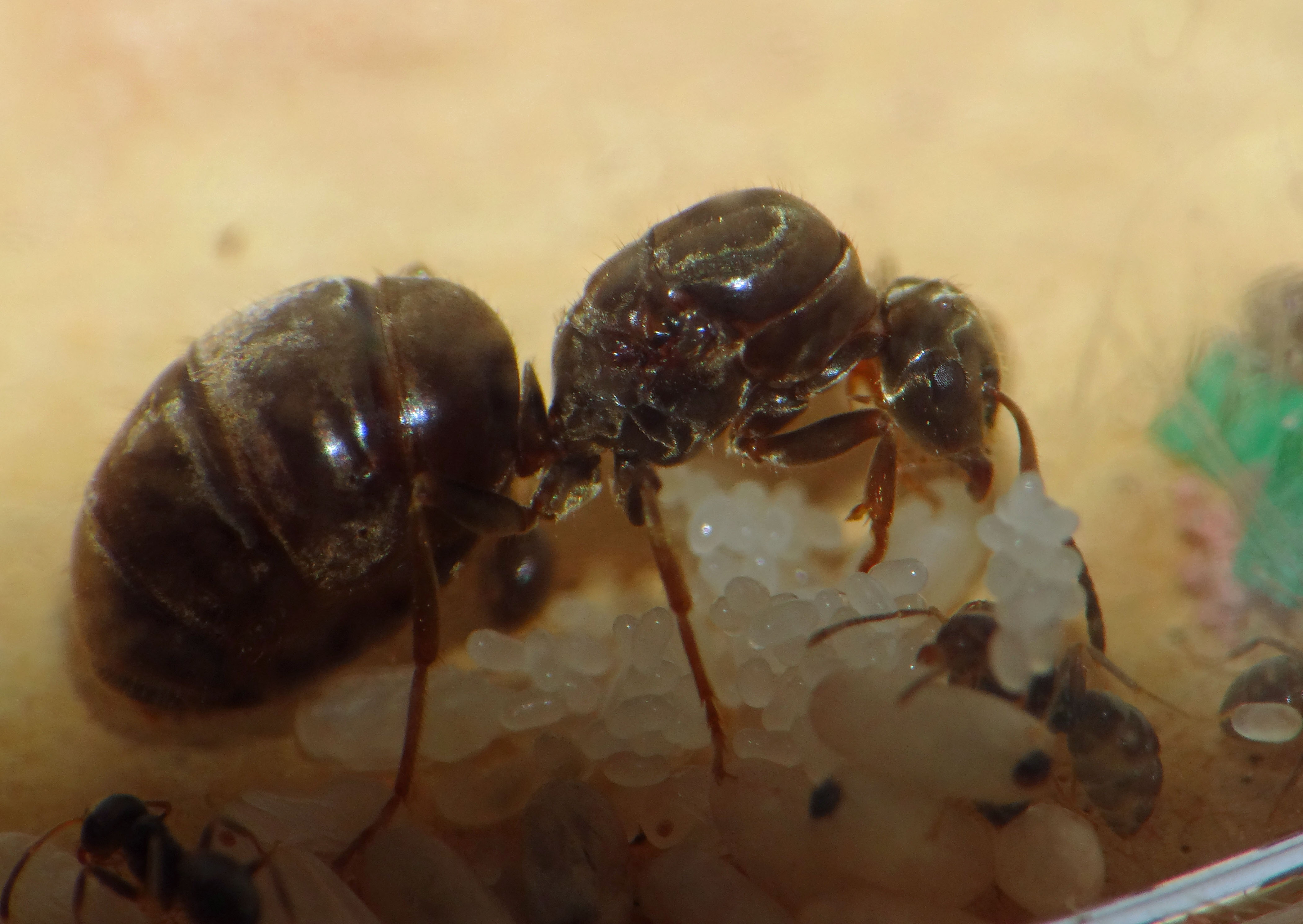 Queen Lasius niger with eggs and cocoons